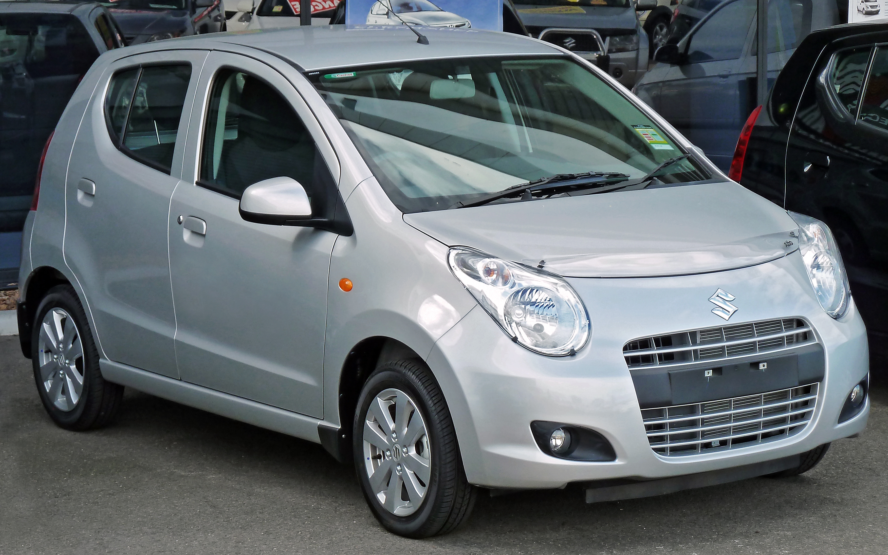 2010–2011 Suzuki Alto (GF) GLX hatchback. Photographed at Tynan Suzuki, Kirrawee, New South Wales, Australia.